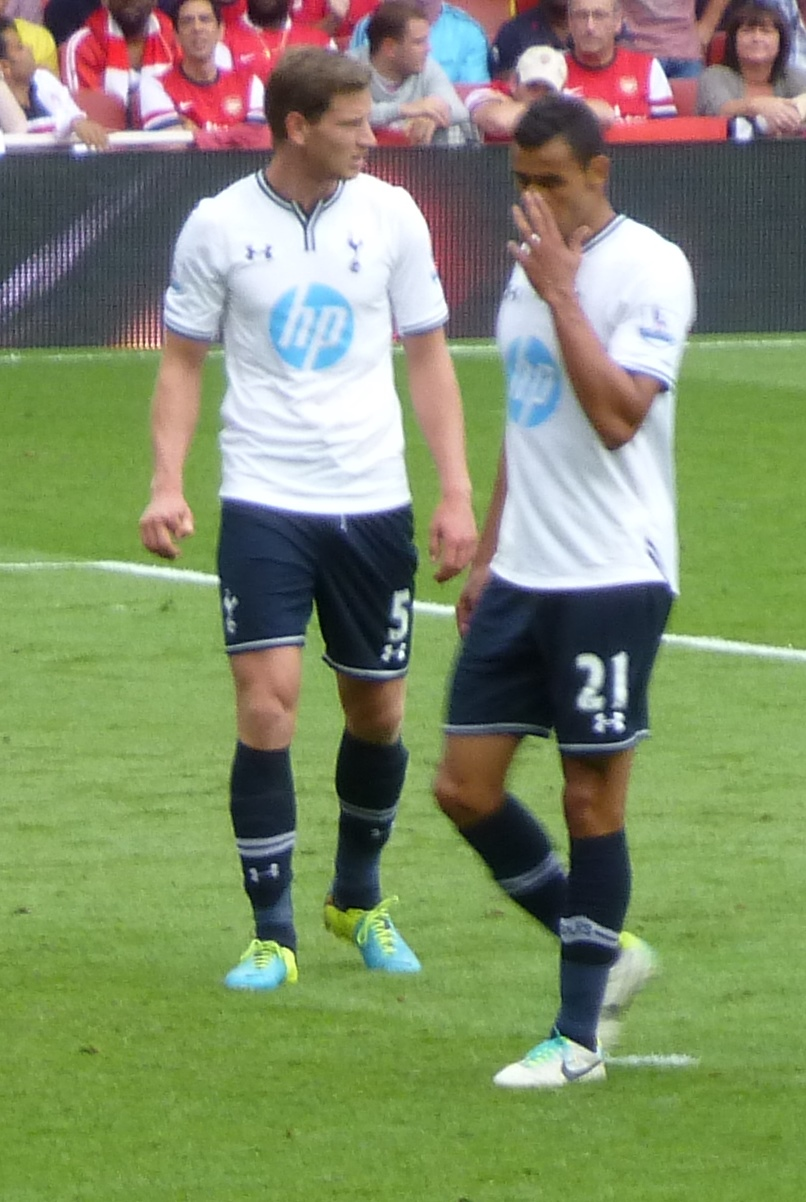 Belgian compatriots Jan Vertonghen and Nacer Chadli playing for Tottenham Hotspur against North London rivals Arsenal.